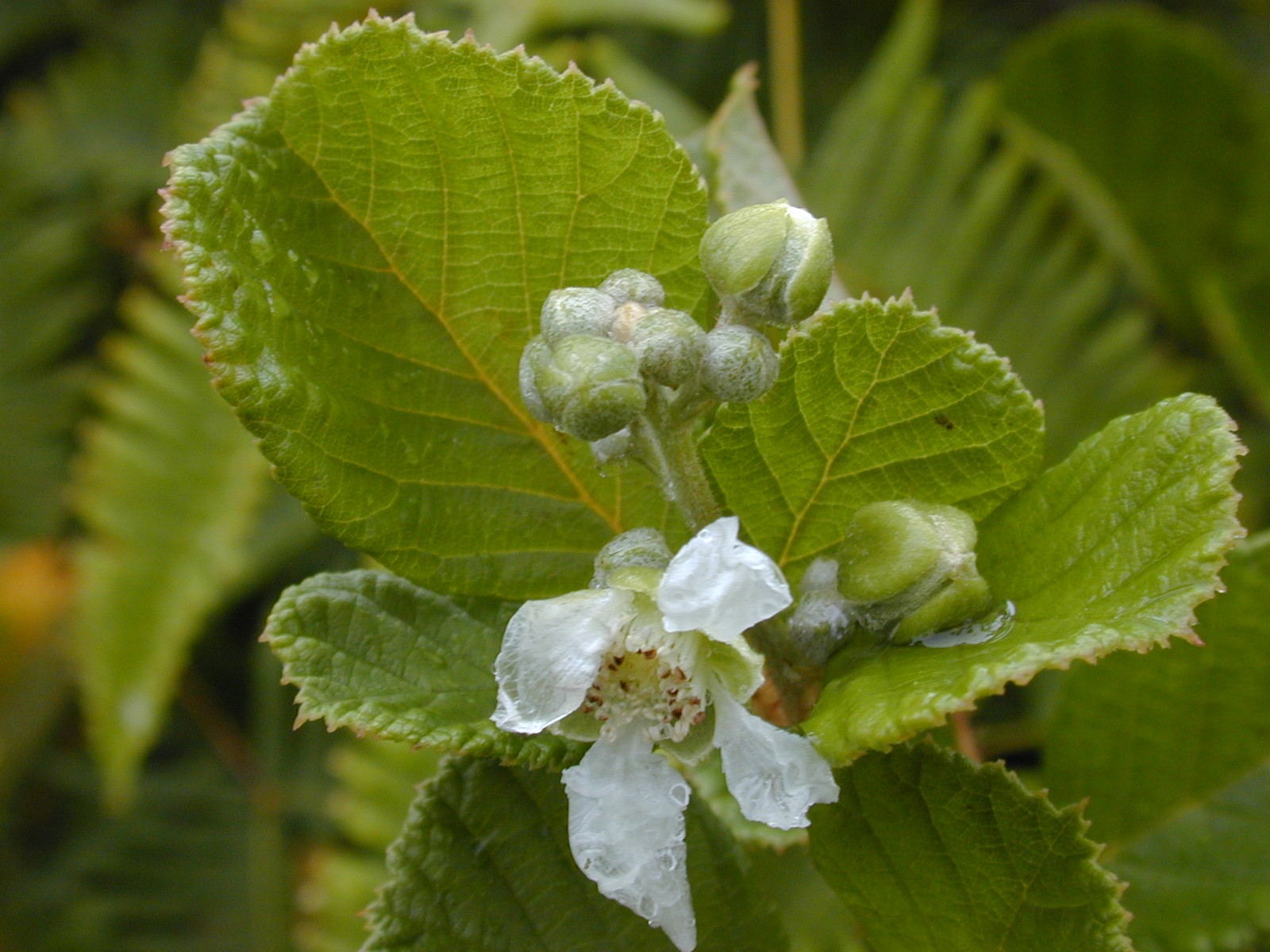 Rubus ellipticus (flower and leaf). Location: Hawaii, Hwy11 Mountain view